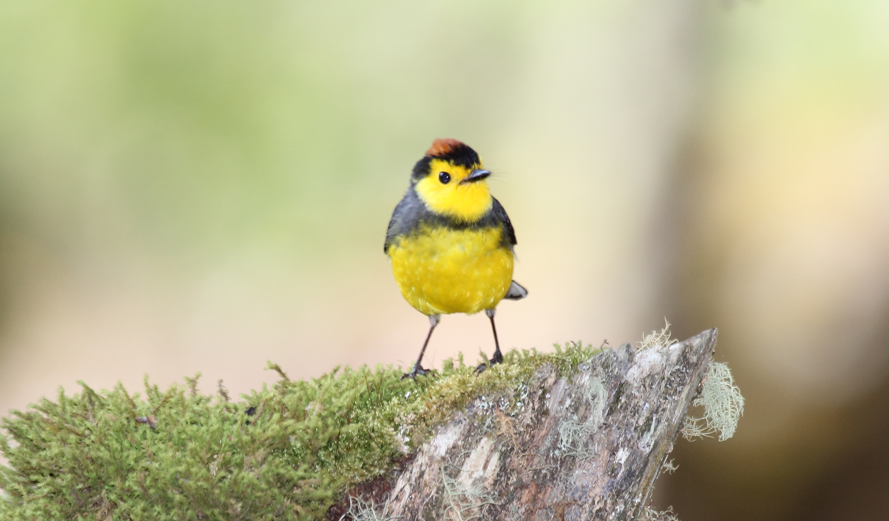 Photographed at Savegre, in Costa Rica.